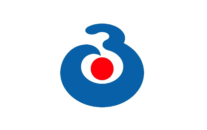 Flag of Bungoono Oita